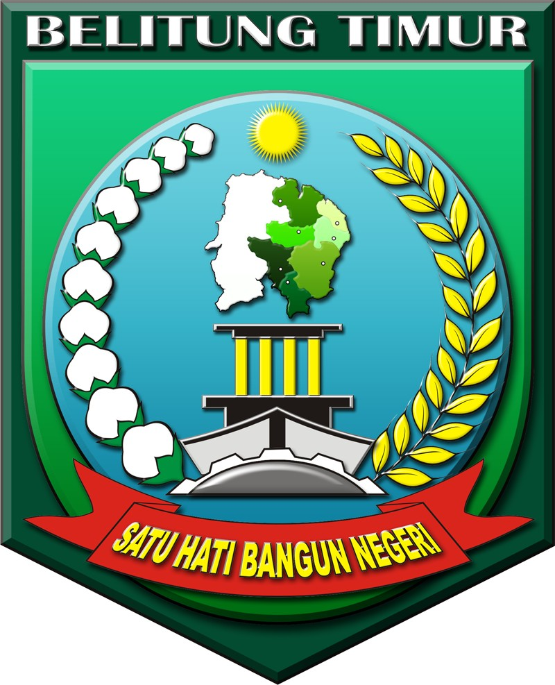 Lambang (Coat of Arms) of Kabupaten (Regency) Belitung Timur, Provinsi Kepulauan Bangka Belitung (Bangka-Belitung Islands/Archipelago Province), Indonesia